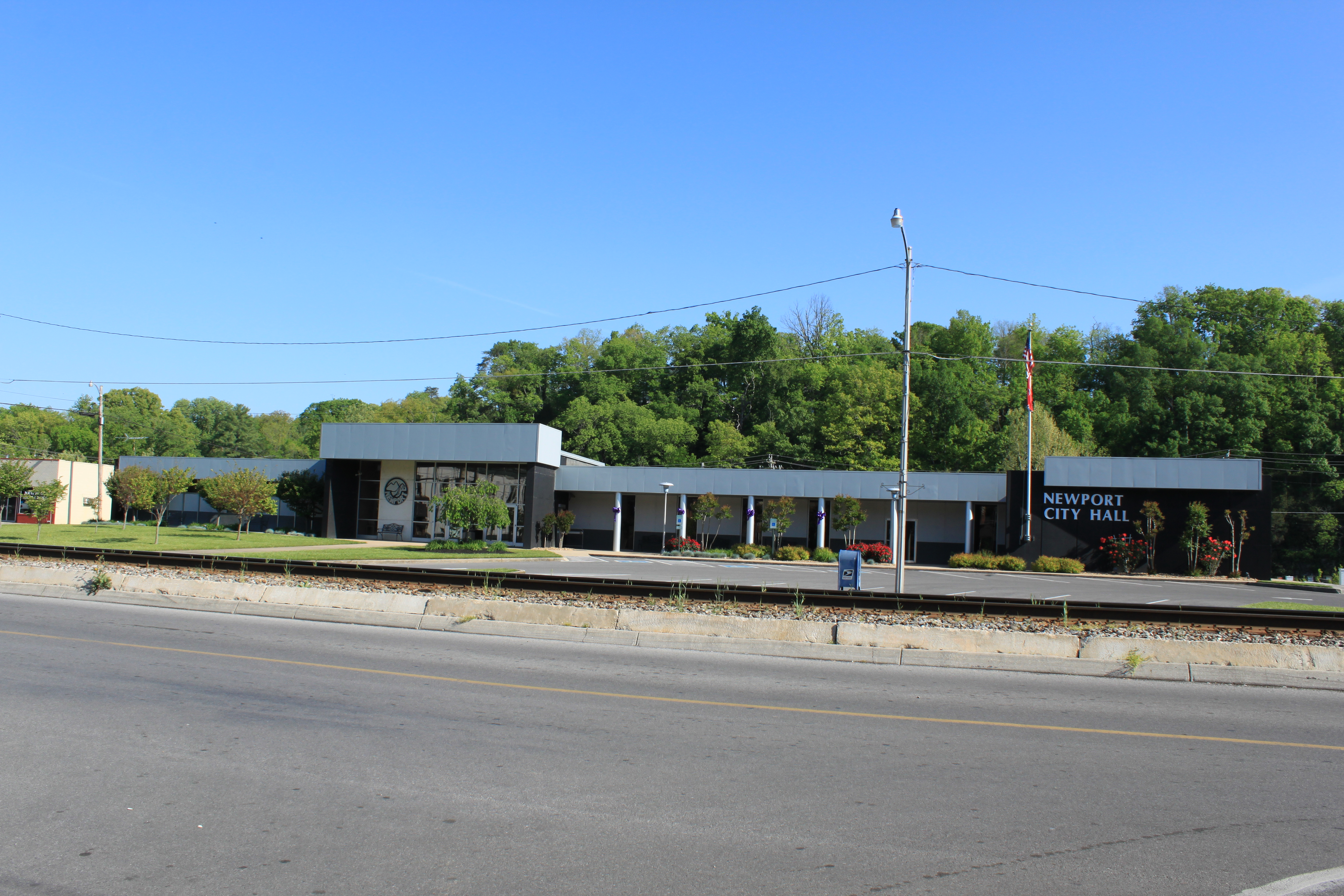 Newport City Hall, 300 East Main Street, Newport, Tennessee.